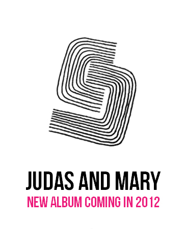 Shine - new album